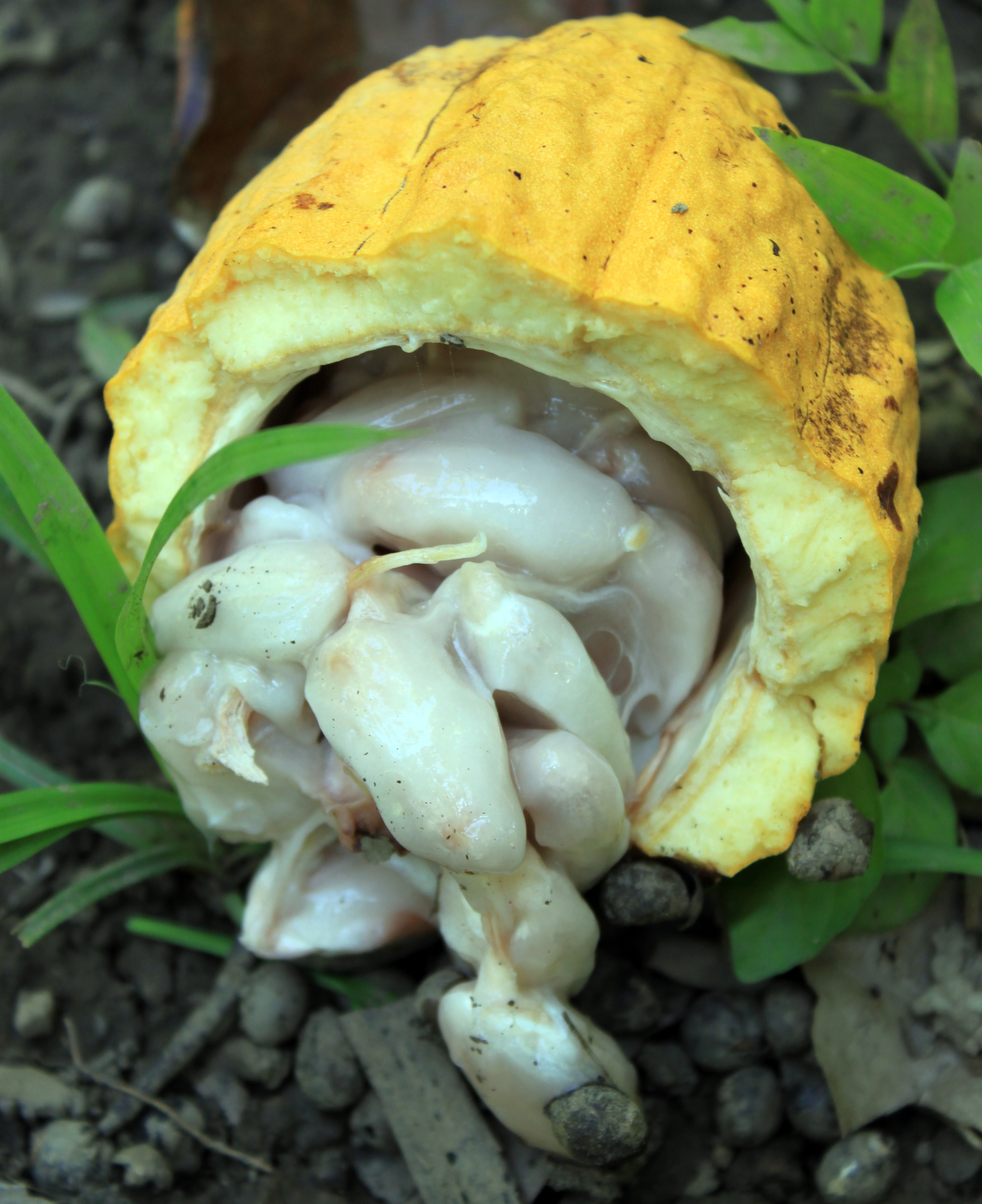 Cacao fruit